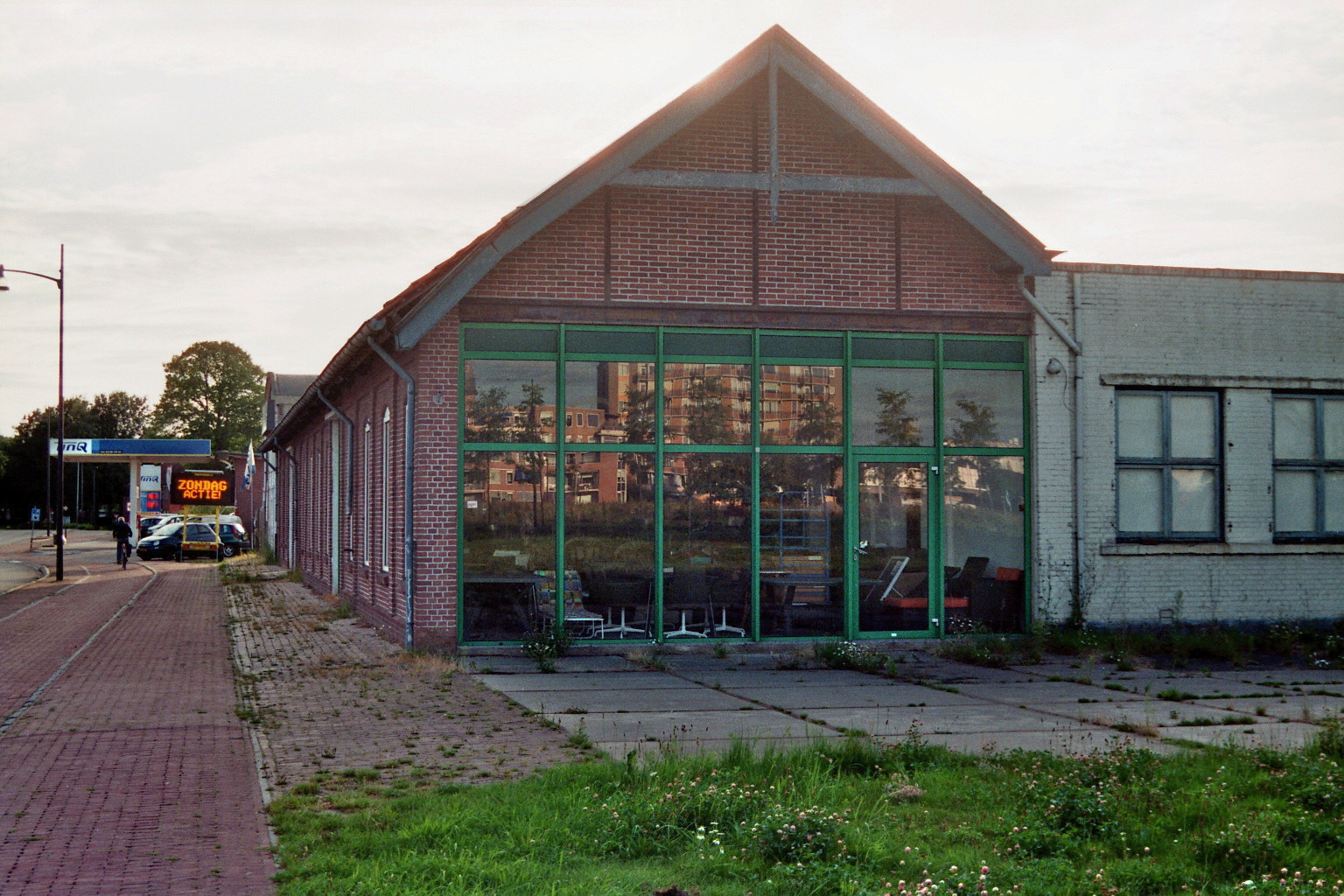 Former motive power depot of the steam tramway DSM in Coevorden. Ehemalige Bahnbetriebswerk der Kleinbahn DSM in Coevorden Camera: Canon Eos 3000 Film: Fujifilm Superia X-tra 400 ISO